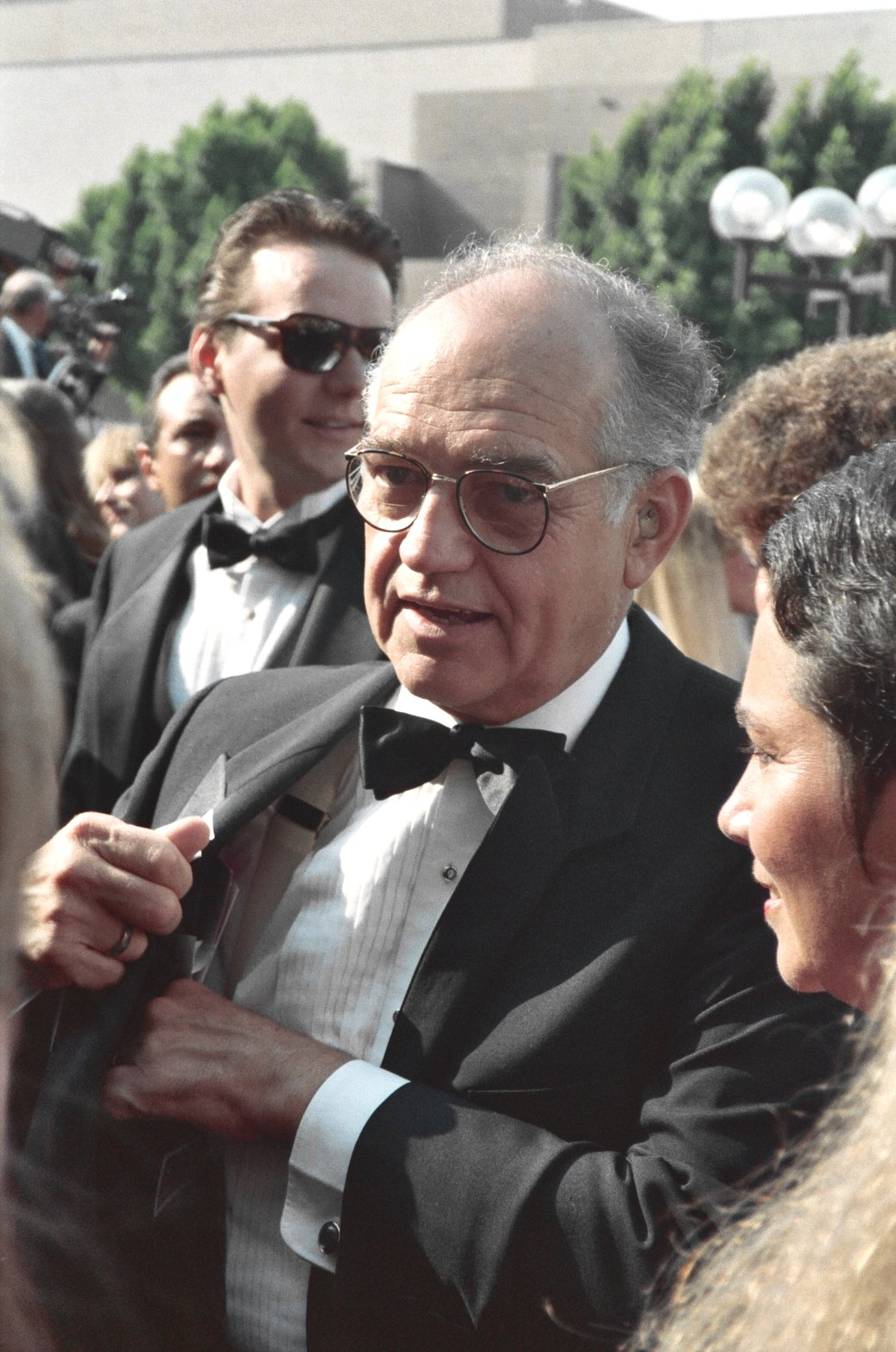 1988 Emmy Awards NOTE: Permission granted to copy, publish, broadcast or post any of my photos, but please credit "photo by Alan Light" if you can. Thanks. Scanned from the original 35MM film negative.